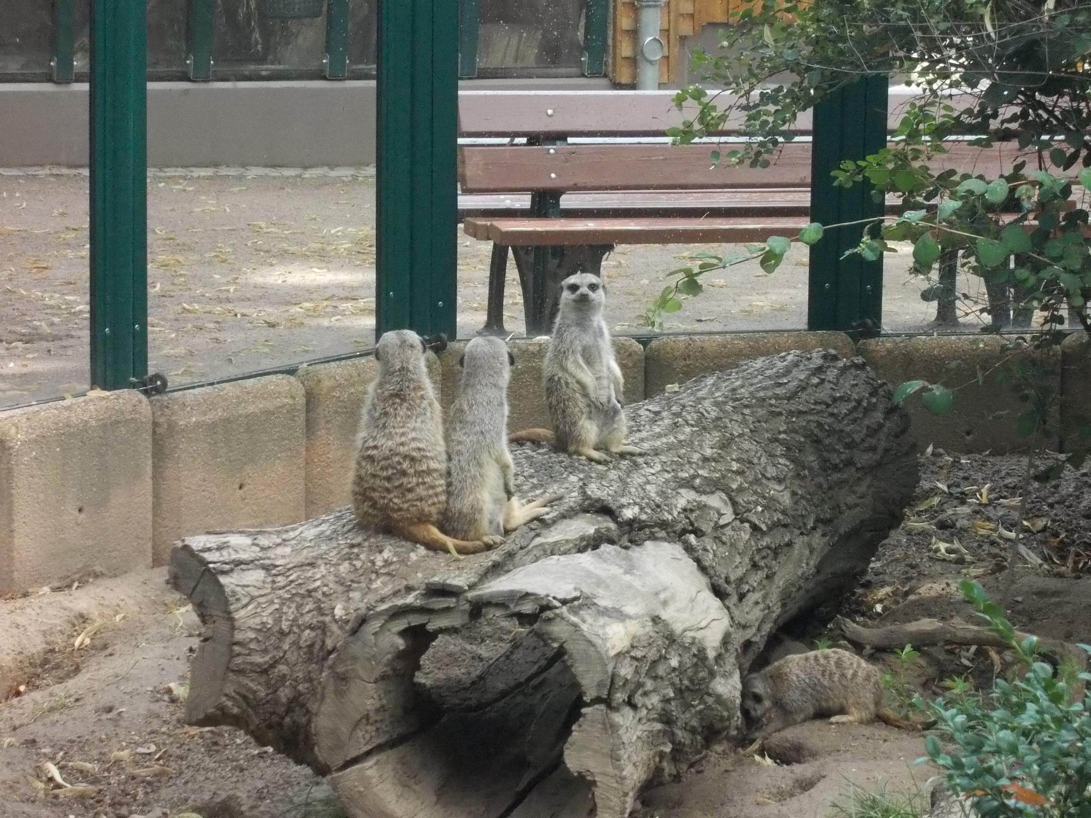 Island Zoo in Altenburg (Thuringia)